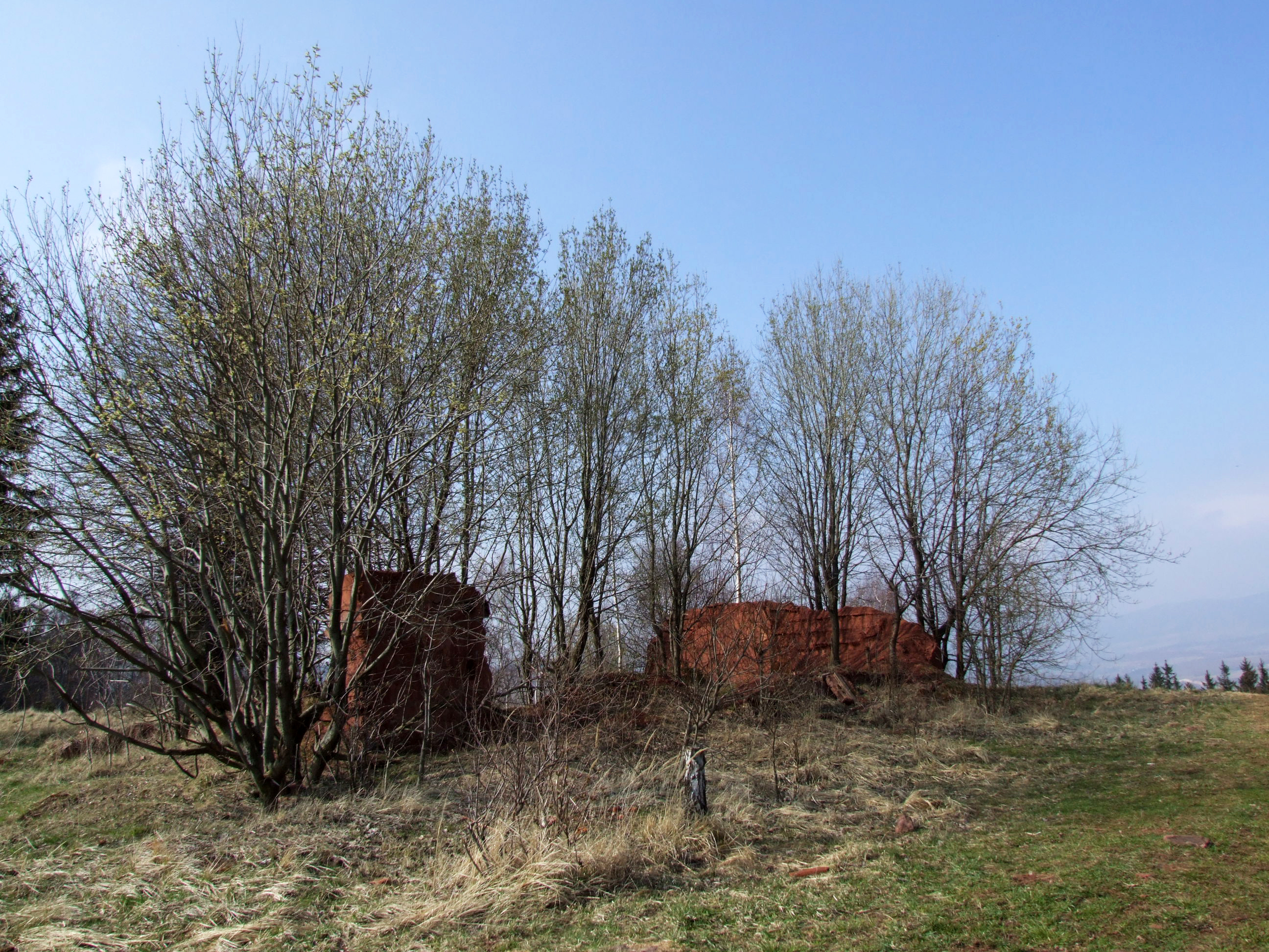 Ruins of Luckasbaude - mountain hostel in Sudetes